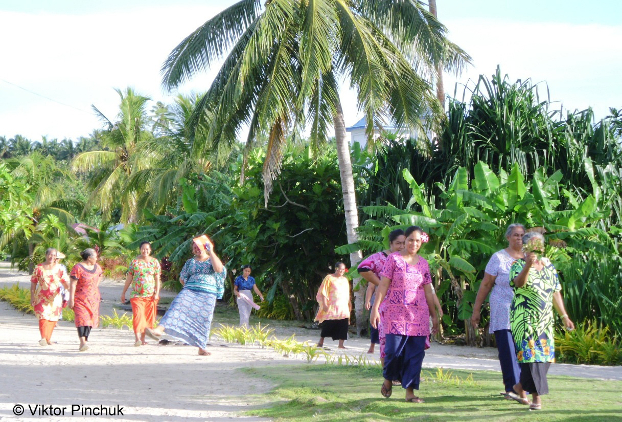 Женщины возвращаются из церкви.